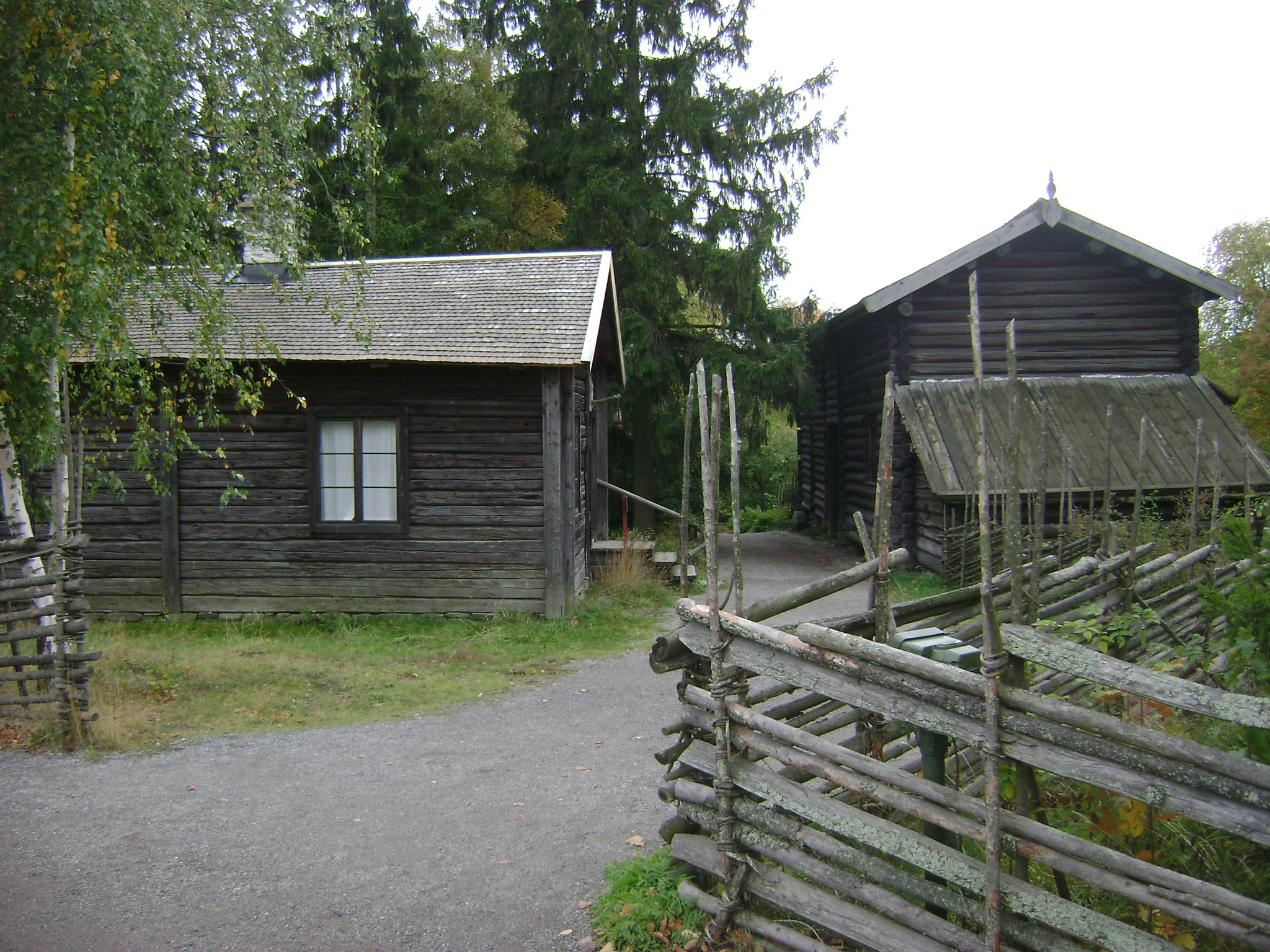 Sweden. Stockholm. Djurgården. Open air museum